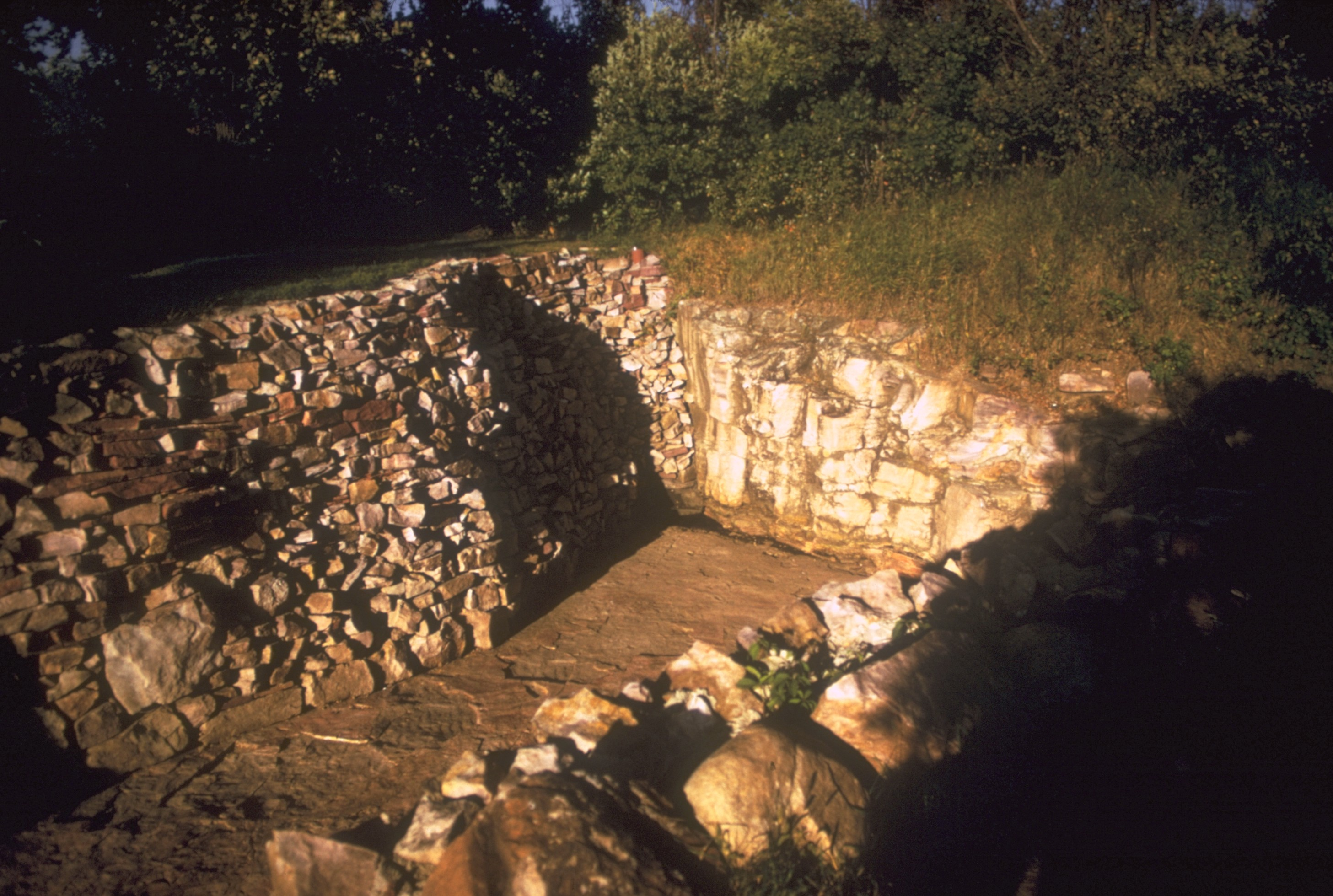 Catlinite quarry at Pipestone National Monument. From